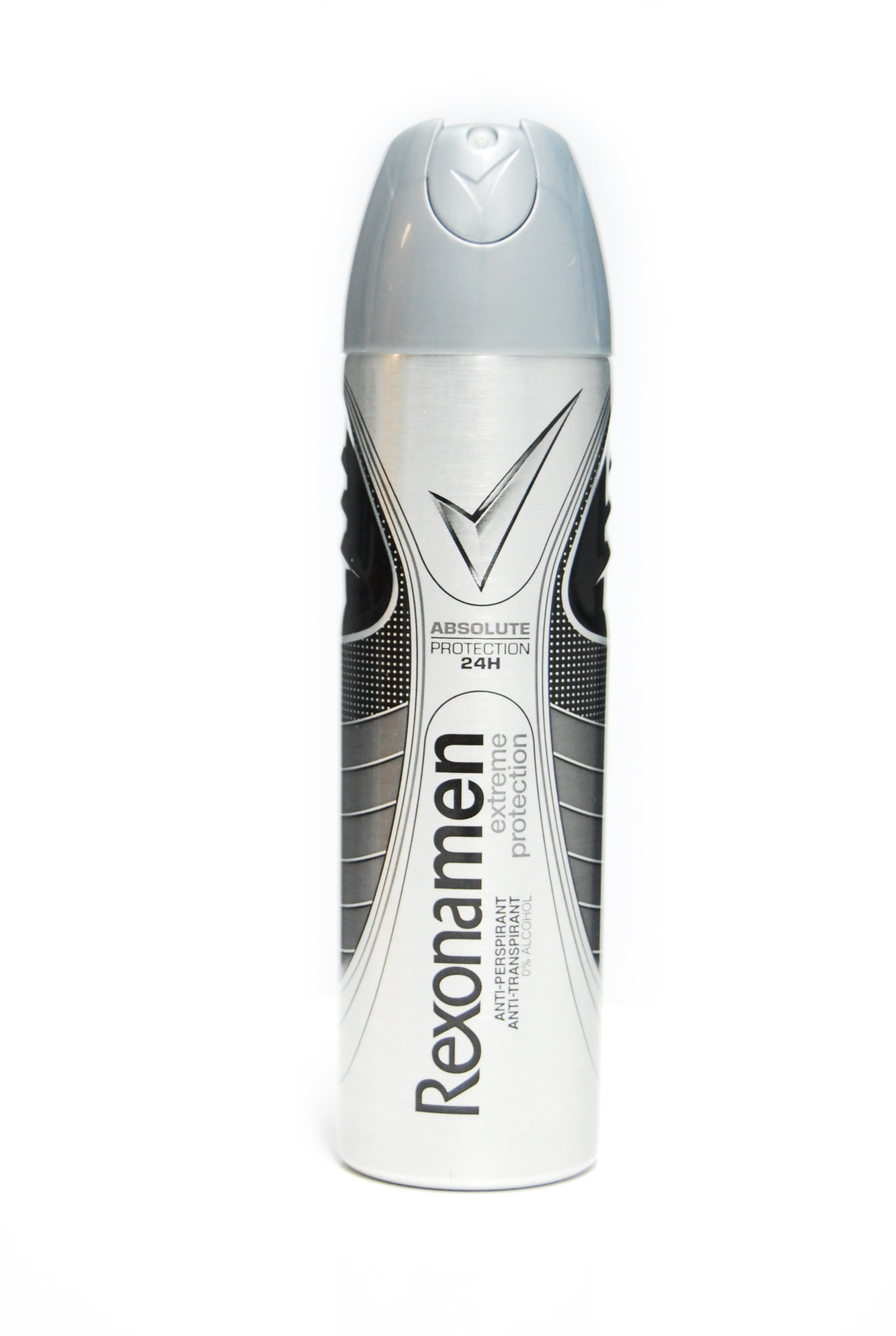 RexonaMen Extra Protection